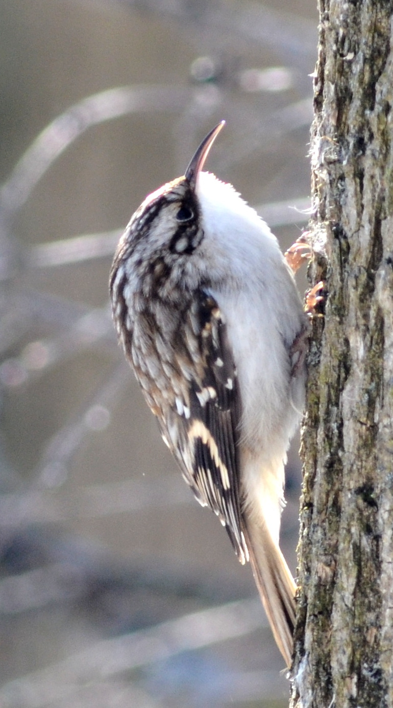 Crabtree FP Barrington Hills, IL